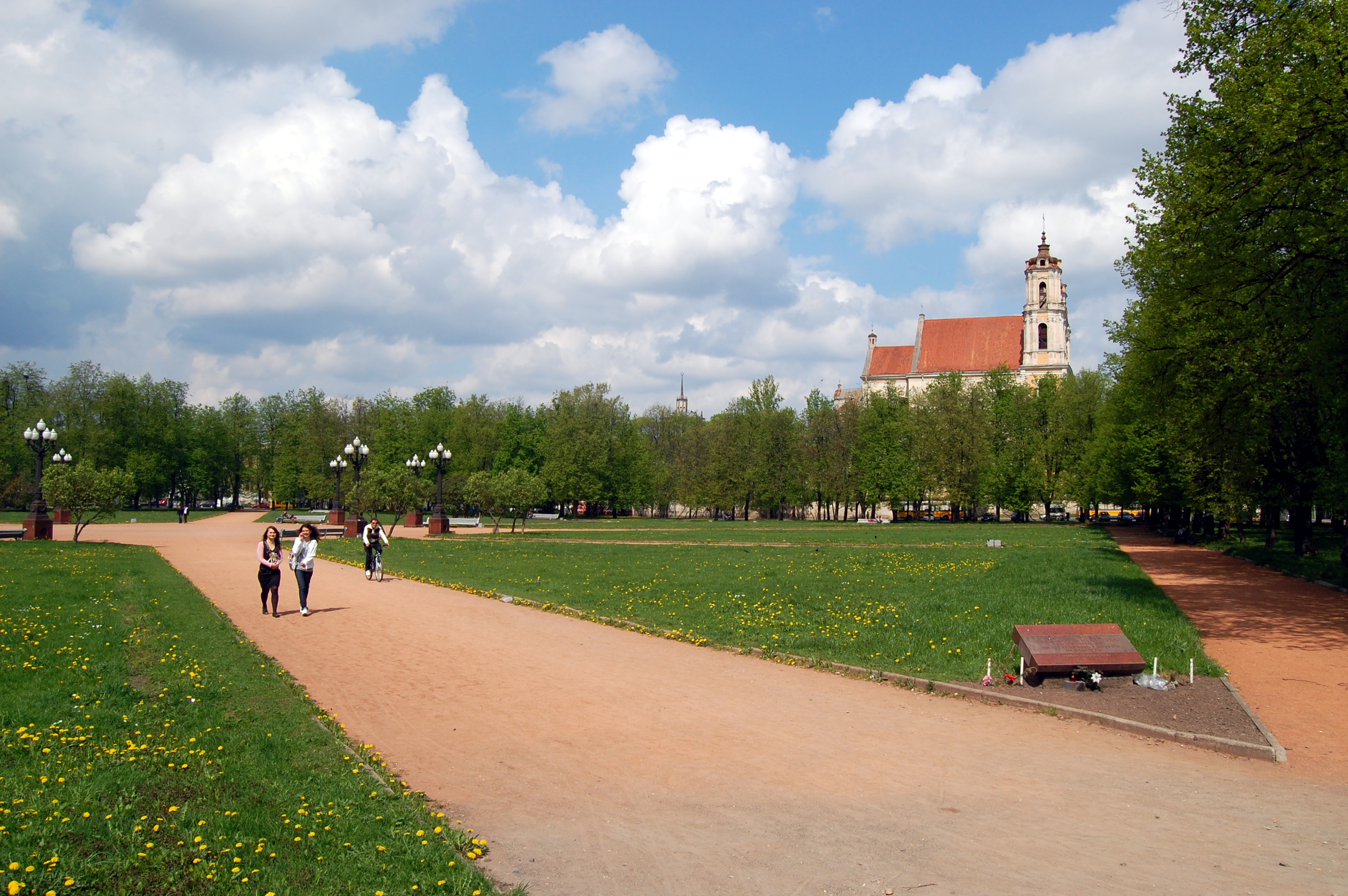 Lukiškės Square near Gediminas Avenue, Vilnius, Lithuania.